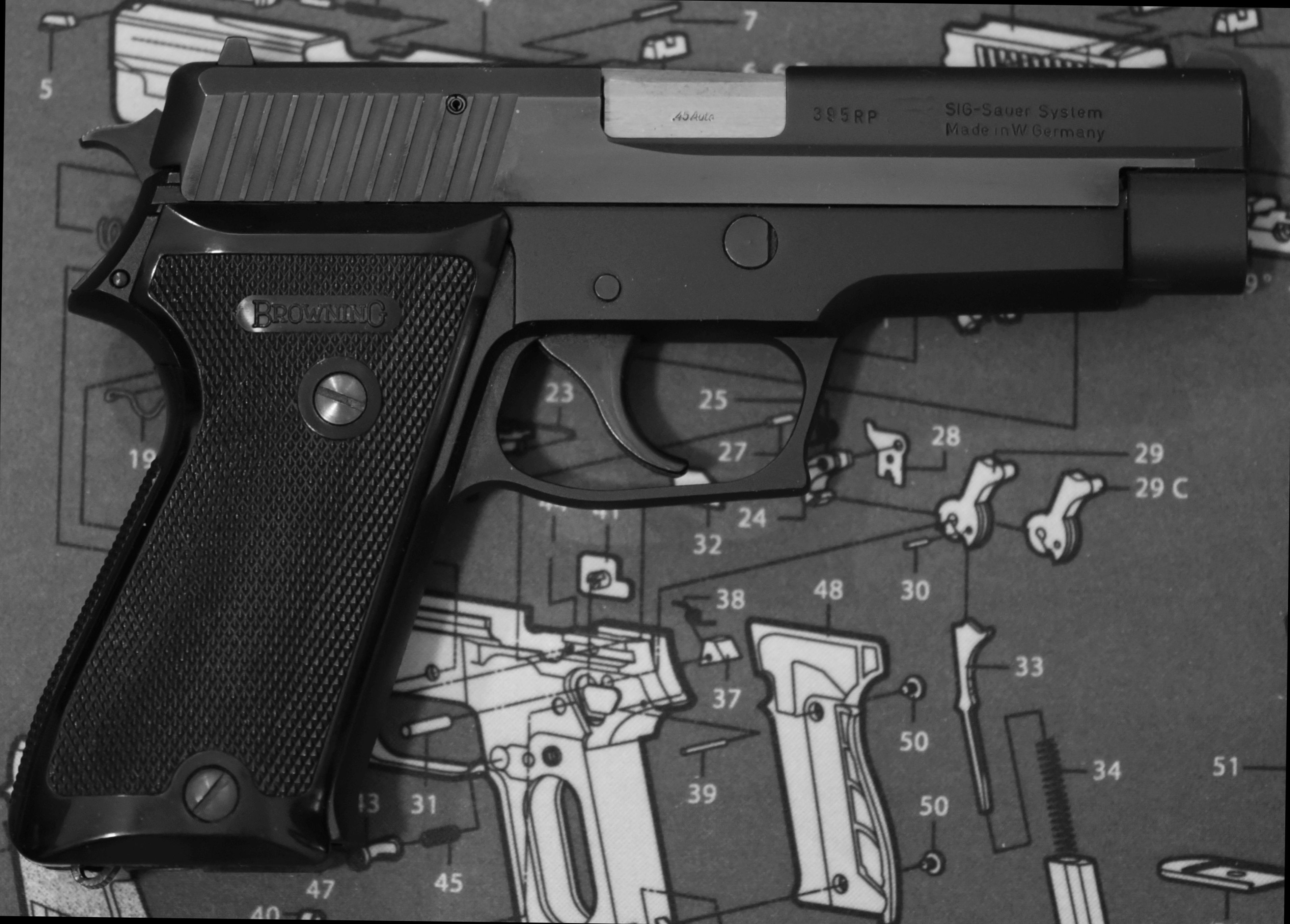 Browning BDA (Browning Double Action) handgun in .45 ACP caliber.